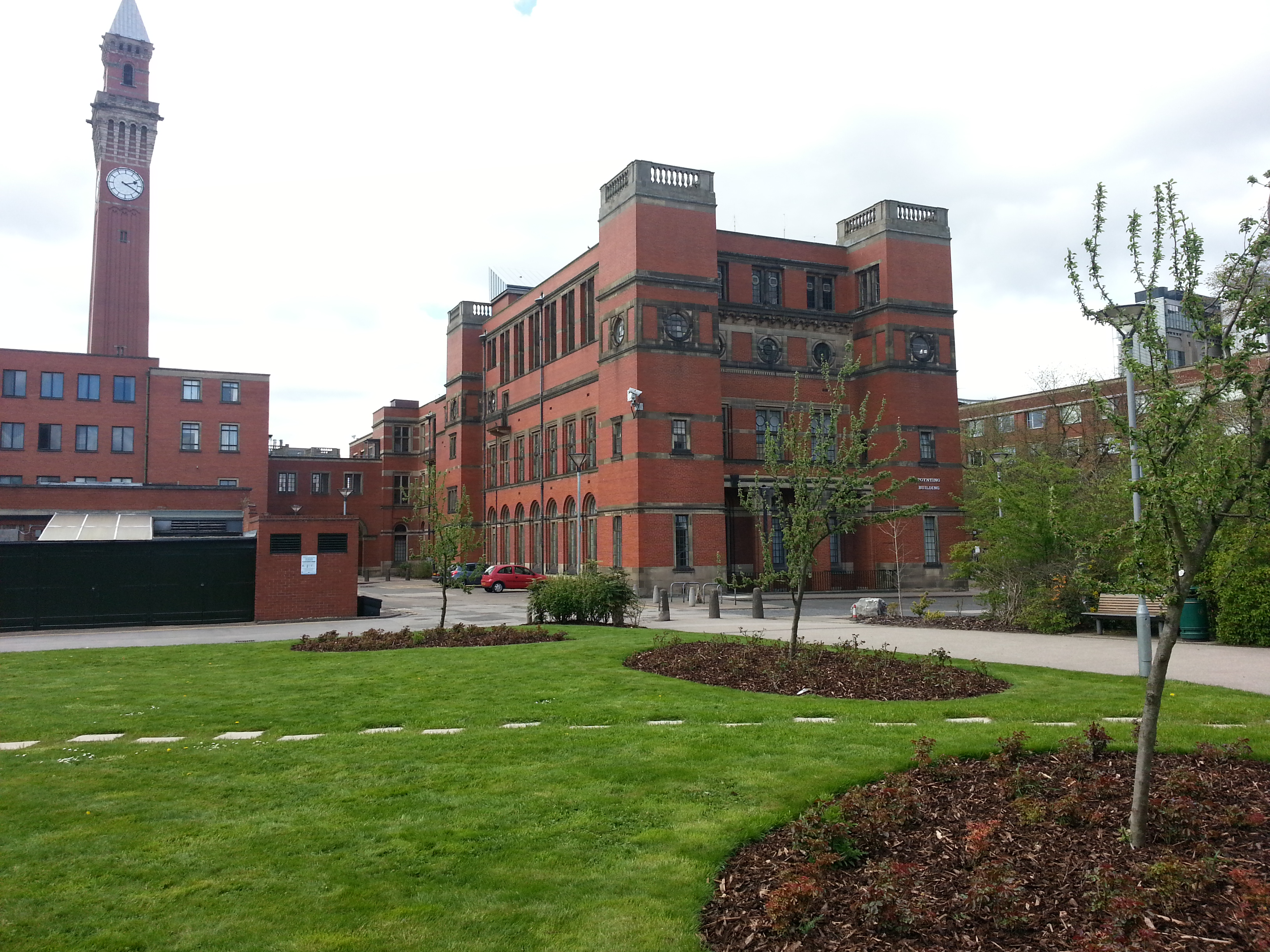 University of Birmingham, England